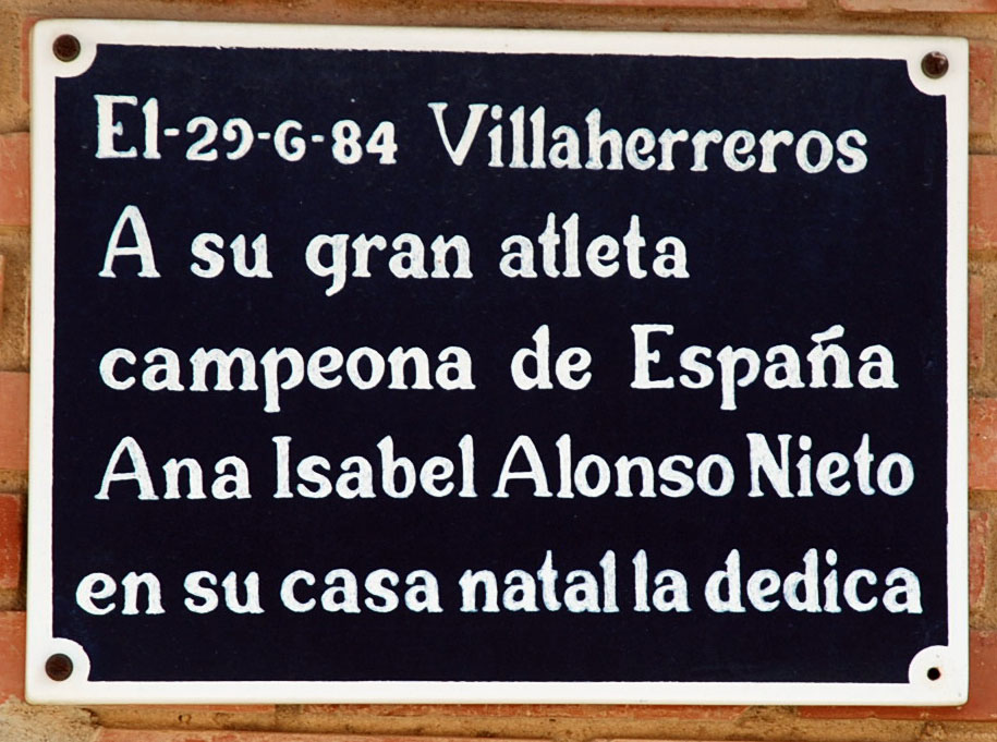 Villaherreros (Palencia, Castile and León).